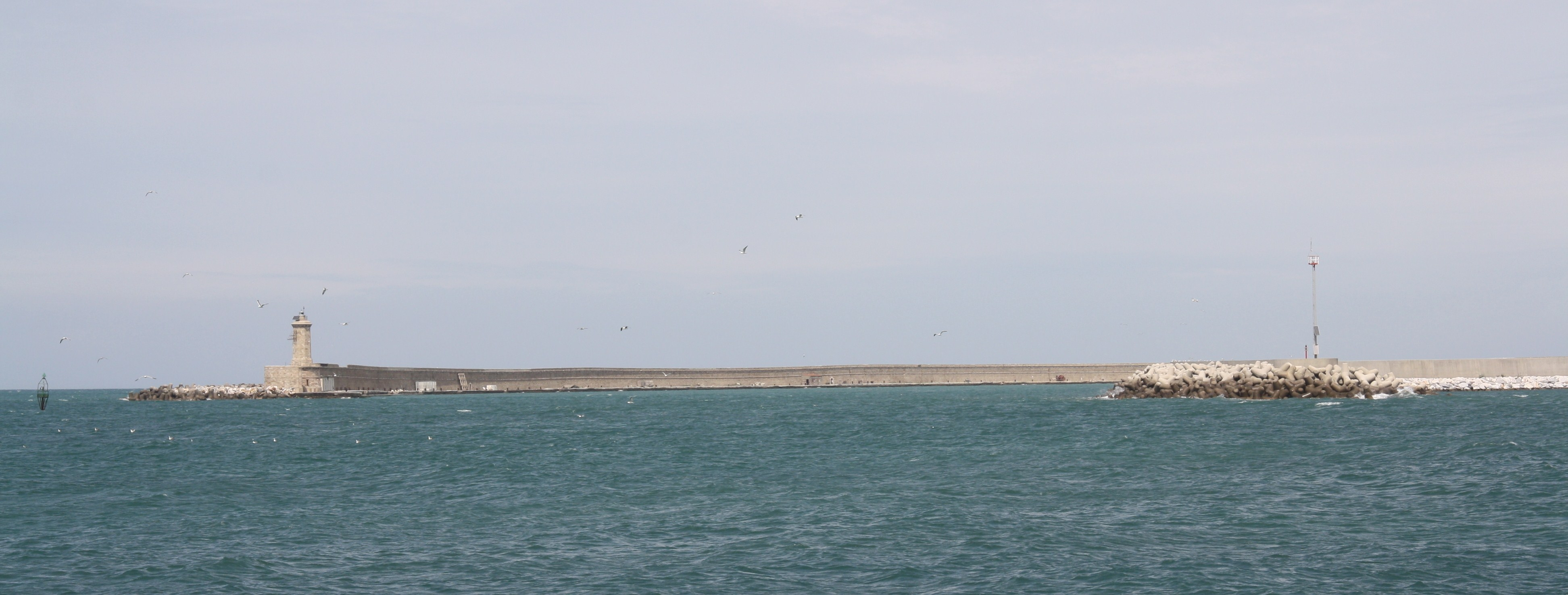 Italy, Port of Livorno, Diga Curvilinea.